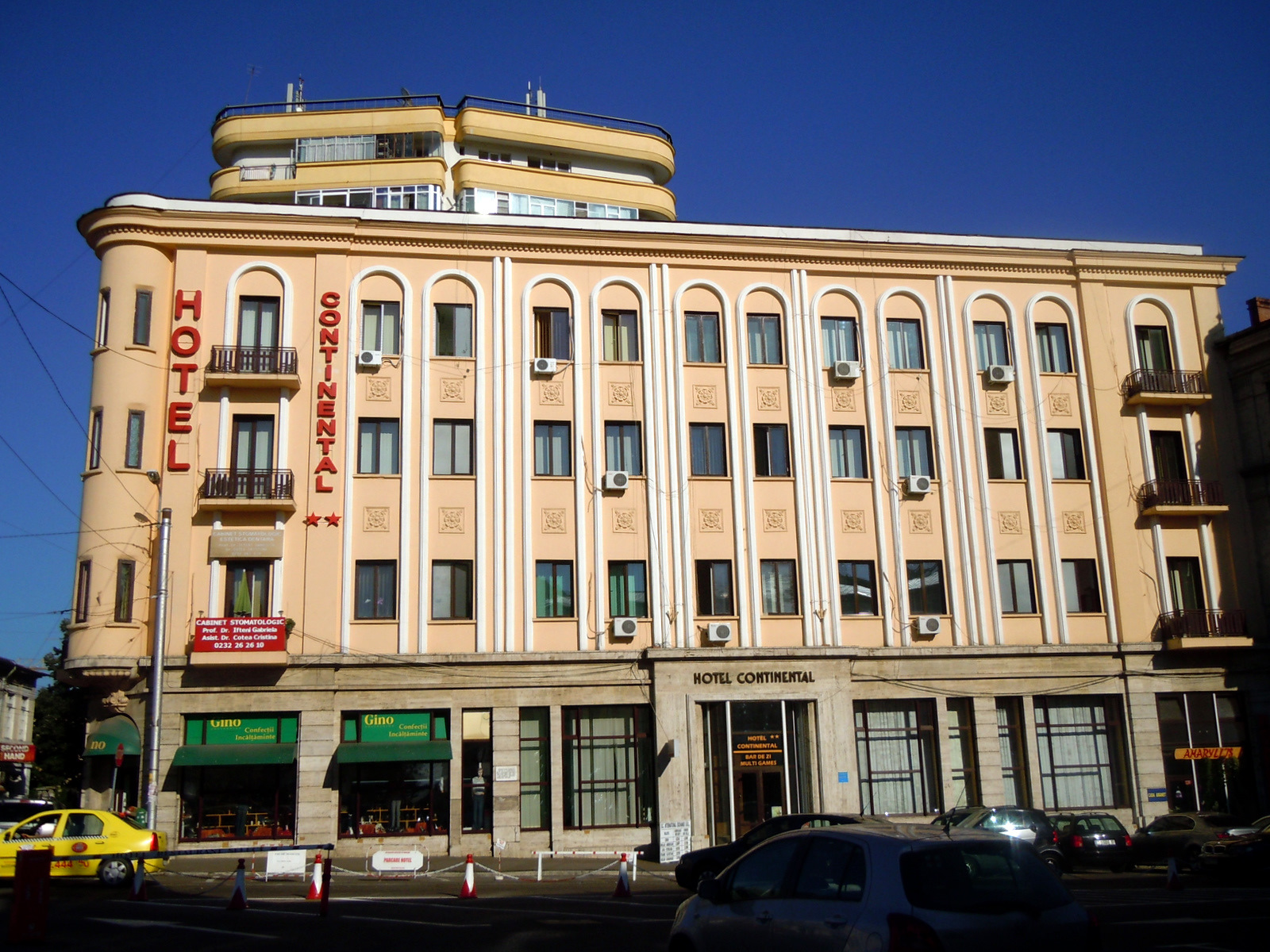 Iaşi , Hotel Continental , Iaşi, Romania